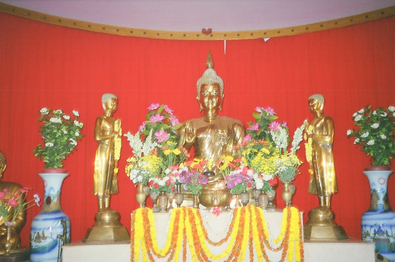 A View of Buddha Idol in Buddha Vihar in Bangalore